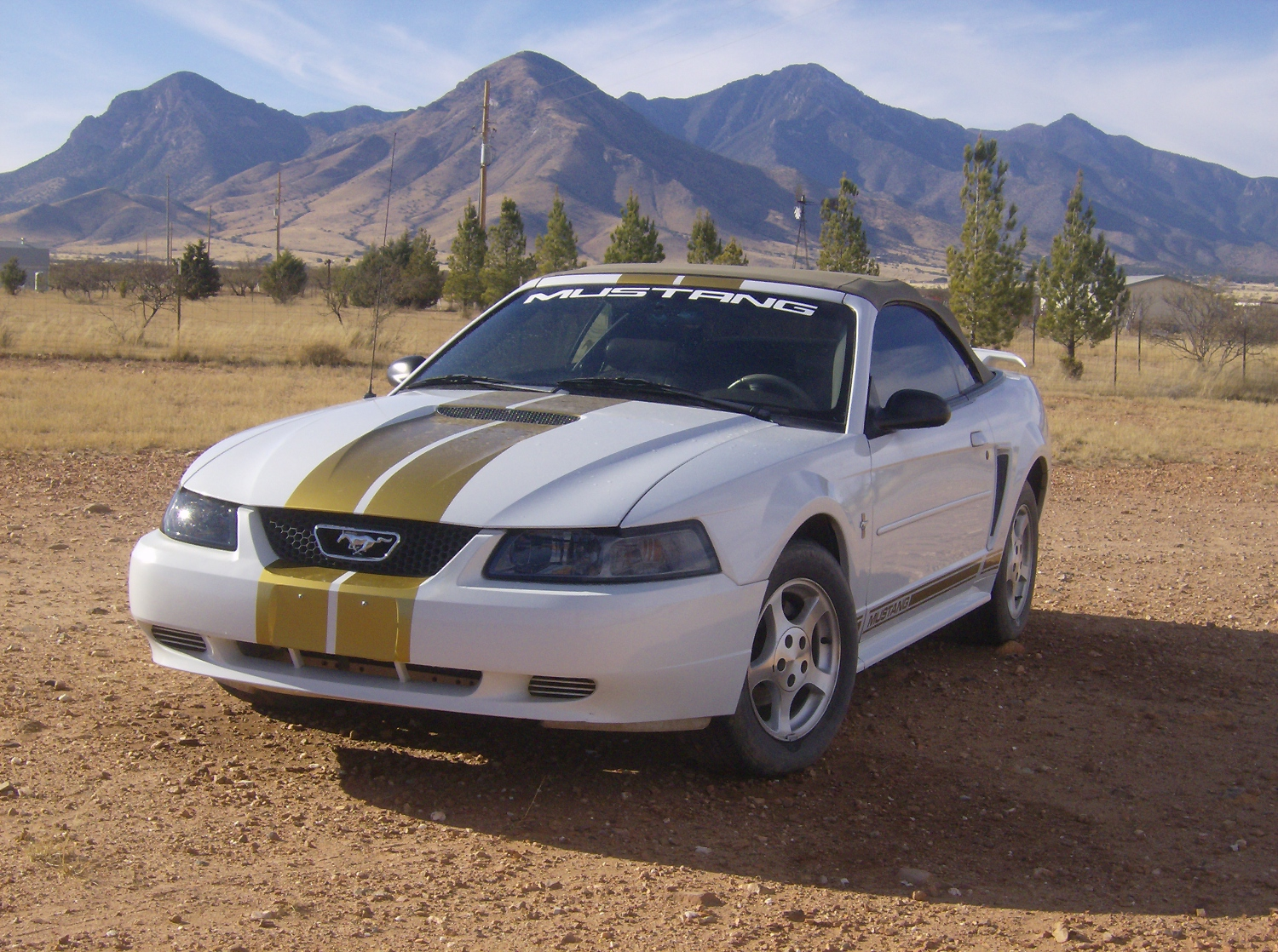 2002 Convertible Ford Mustang.